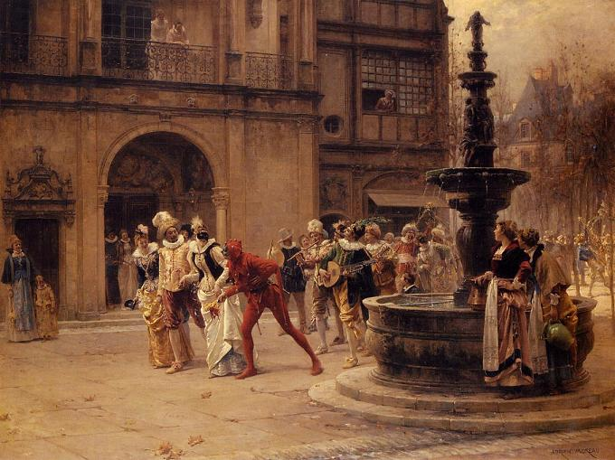 Carnival procession in the 17th century (oil on canvas)